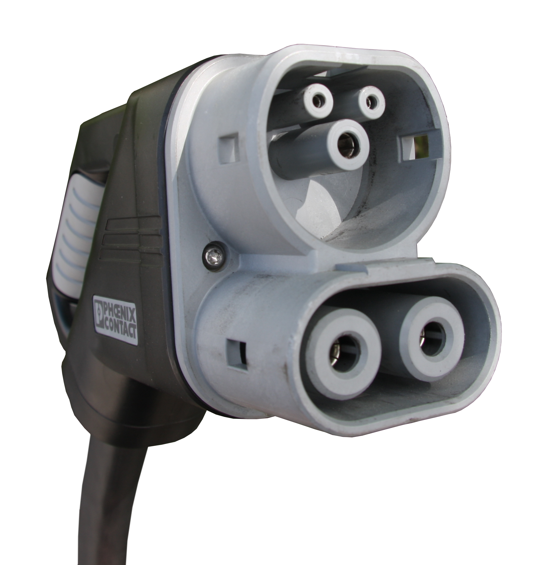 The side oblique view of a Combined Charging System Type 2 Combo connector